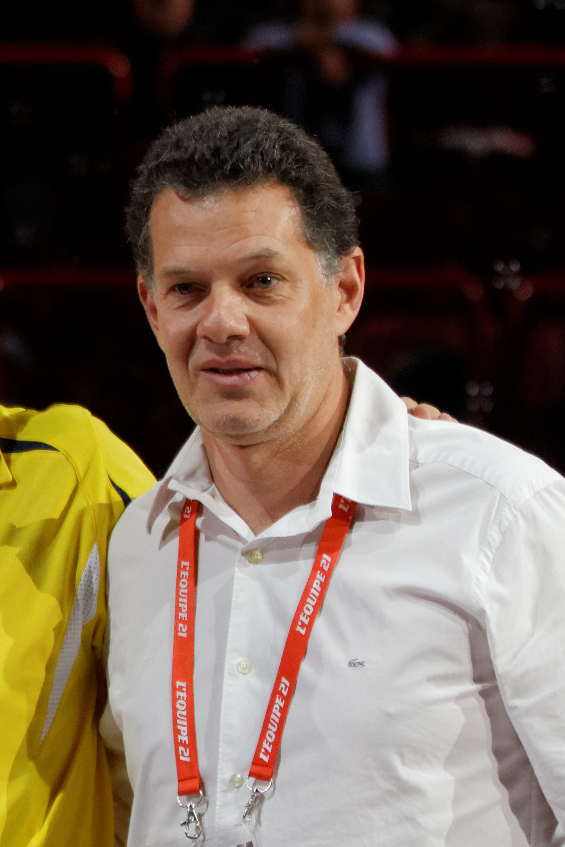 2013 World Table Tennis Championships, Paris. Jean-Michel Saive vs Jean-Philippe Gatien exhibition match. Patrick Chila.